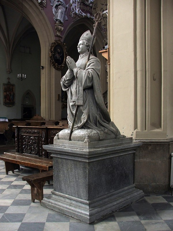 Kenotaph for Arnošt of Pardubice in the Church of the Assumption of the Blessed Virgin Mary in Kłodzko, Polen